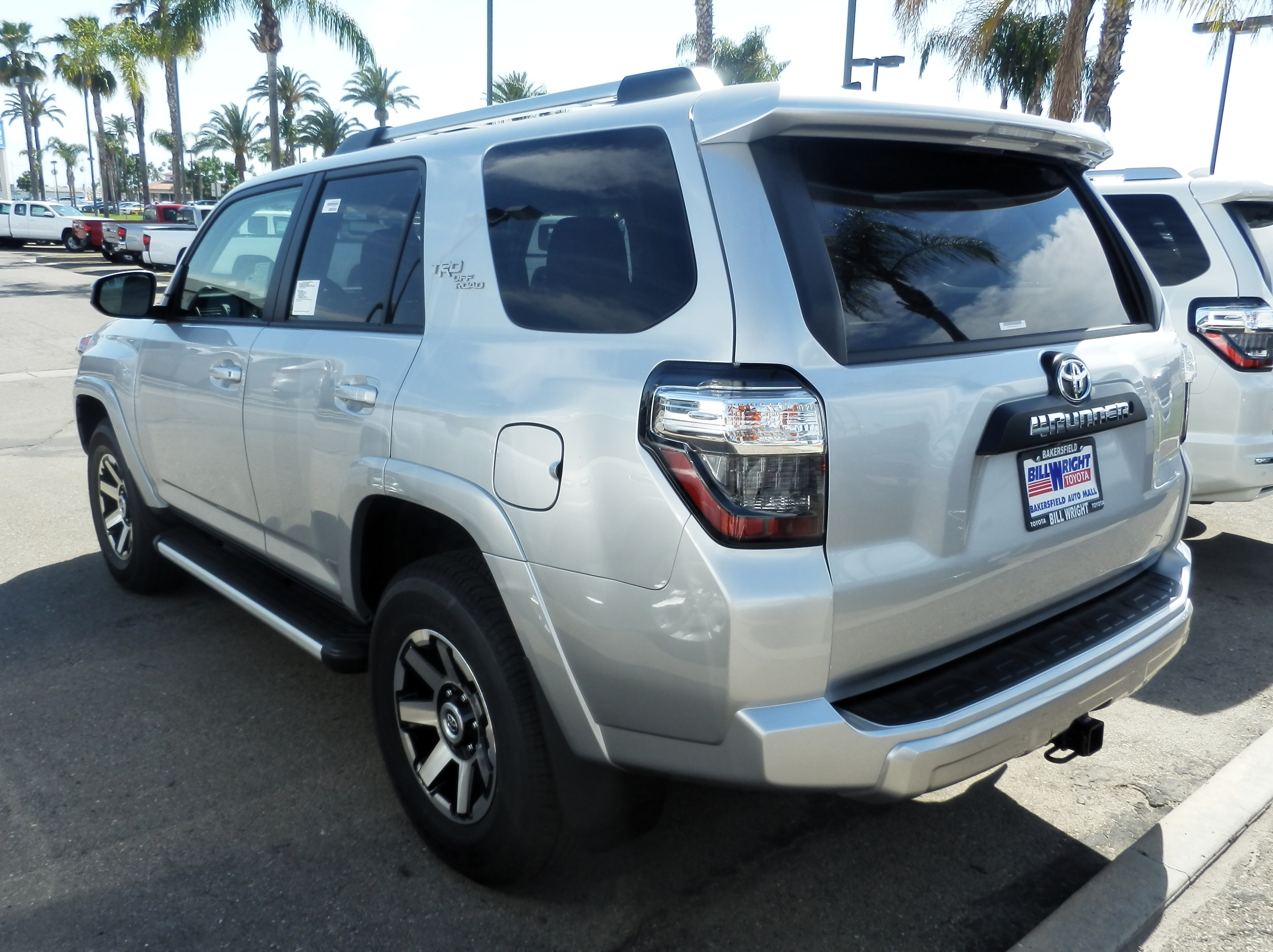 Toyota 4Runner in Bakersfield